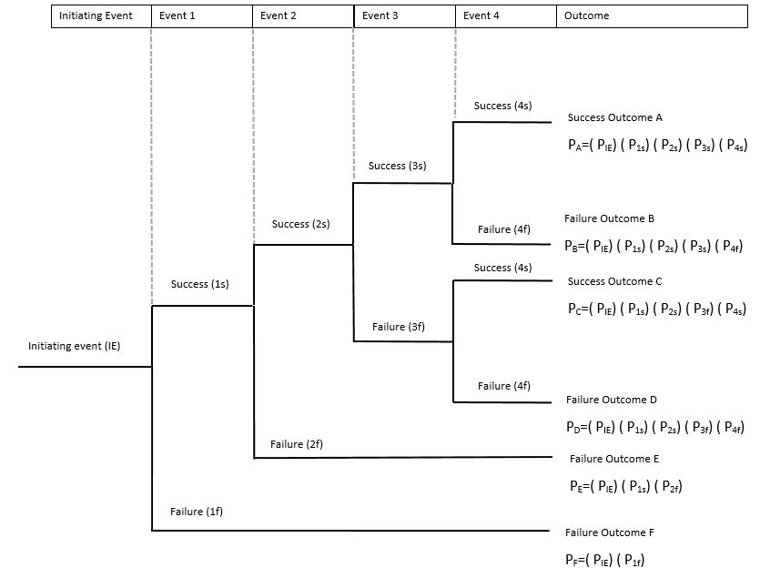 An example iteration of an event tree diagram used in event tree analysis.